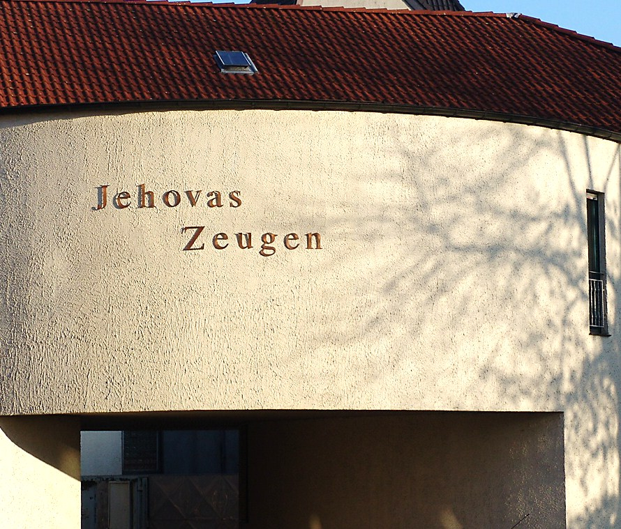 Königreichssaal